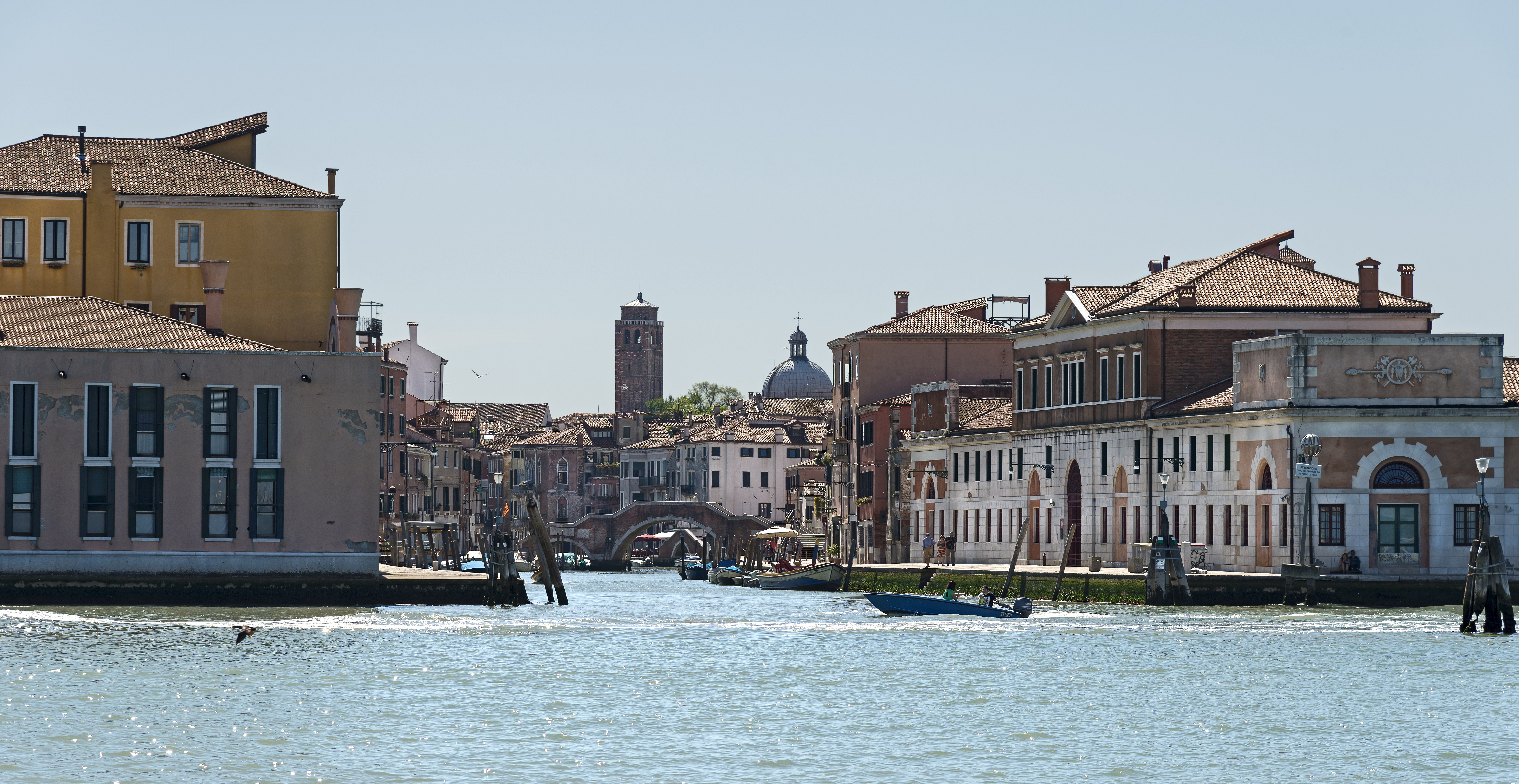 Canale di Cannaregio to Venice. The canal seen from the lagoon.